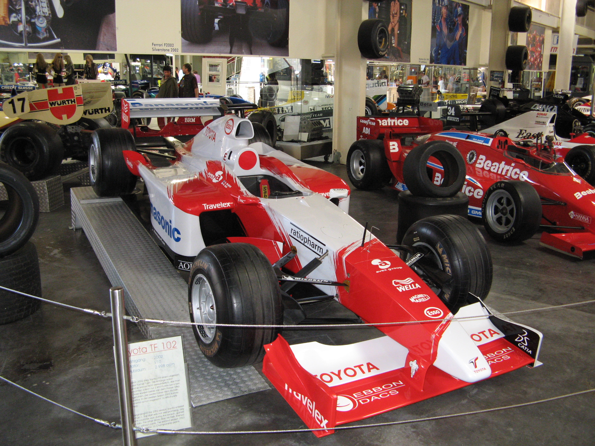 Toyota F1 2002 car exhibited in Museum Sinsheim, Germany